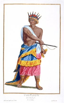 Credit: King Tofizon of Dadra, 1780 (coloured engraving), Duflos, Pierre (1742-1816) / Private Collection / The Stapleton Collection / The Bridgeman Art Library STC 478405 Image number: King Tofizon of Dadra, 1780 (coloured engraving) Title: Duflos, Pierre (1742-1816) Primary creator: French Nationality: Private Collection Location: The Stapleton Collection Credit: coloured engraving Medium: Illustration from 'Recueil d'estampes représentant les grades, les rangs et les dignités suivant le costume de toutes les nations existantes...', published in Paris, 1780. Dadra lies on the west coast of the Indian subcontinent in the Maratha territories near Bombay. Description: 1780 (18th) Date: Asia Costume and Fashion Categories: Vertical Orientation